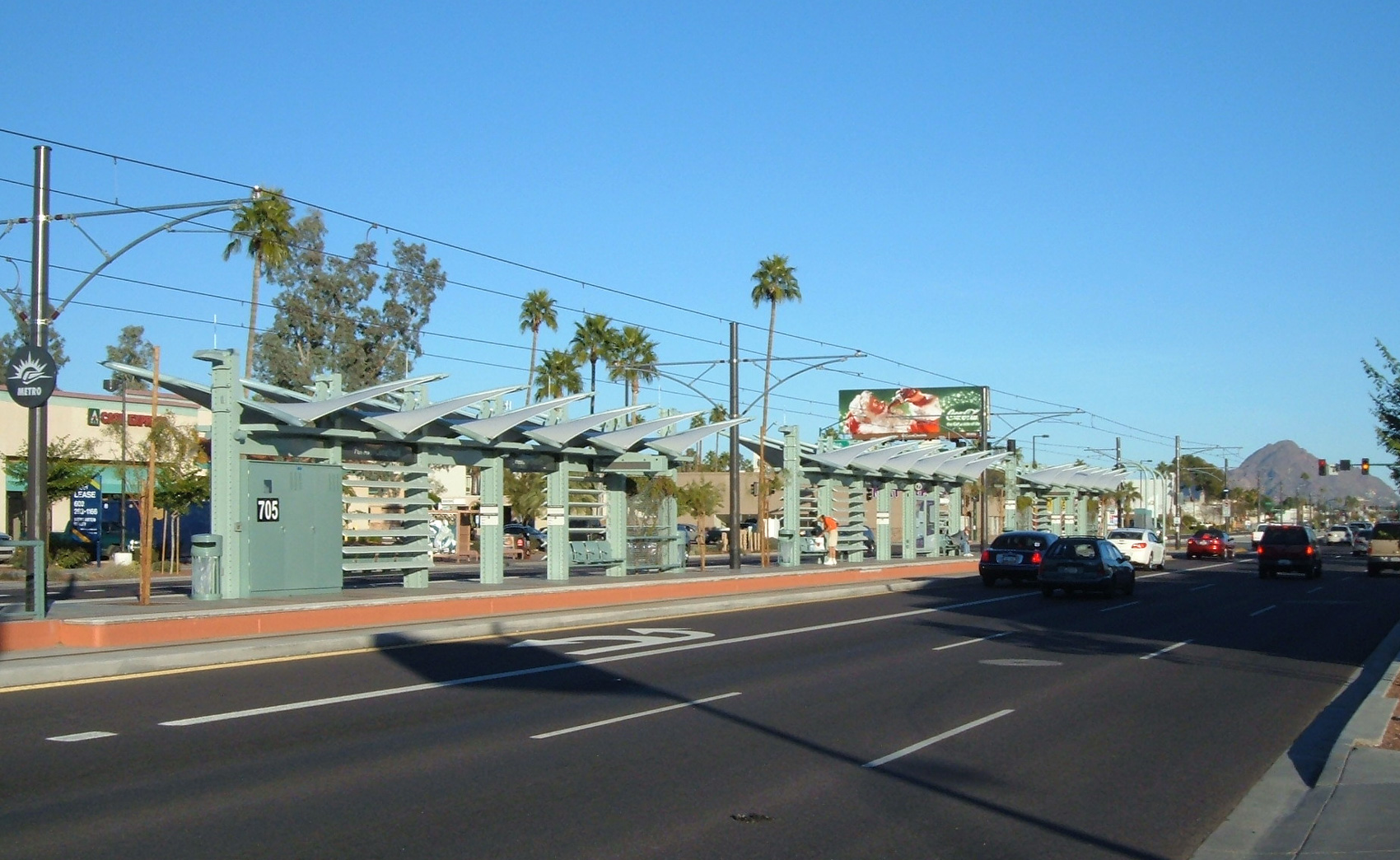 Photograph of the Melrose District (or Camelback at 7th Avenue) Station of METRO Light Rail that serves the Phoenix area, Arizona, USA. Visible in the right background is Camelback Mountain. This photograph was taken on December 29, 2008.